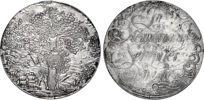 GERMANY, Sachsen-Gotha-Altenburg. Friedrich I. Duke, 1680-1691. AR 1½ Feinsilbertaler (62mm, 32.48 g, 12h). Commemorating the Duke’s entrance into the Order of the Pegnitz Shepherds. Gotha mint; Johann Gottfried Wichmannshausen, mintmaster; Johann Georg Sorberger, engraver. Struck 1683-1687. Bucolic scene: man mounting a shield with monogram onto a tree; behind, shepherds playing pipes among sheep, goats, and stags; IGS below / In/Memoriam/Sempiter/nam (in memory everlasting) in flowing Baroque script; all within decorative scroll; below, 1½ in oval counterstamp above I•G•—W. Schnee 469; cf. Davenport 423 (Doppeltaler). EF, lightly toned, some mount marks. Rare.